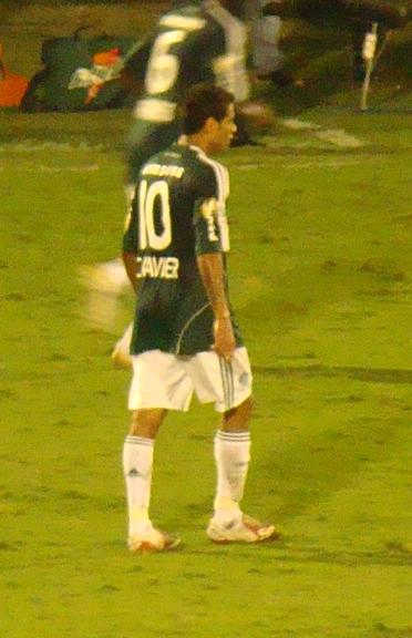 It's a picture of Cleiton Ribeiro Xavier, playing for Brazilian team Palmeiras.